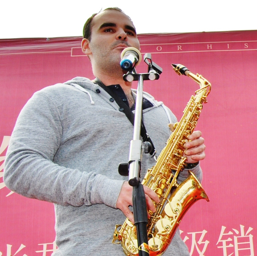 Photo taken in Xuchang, China